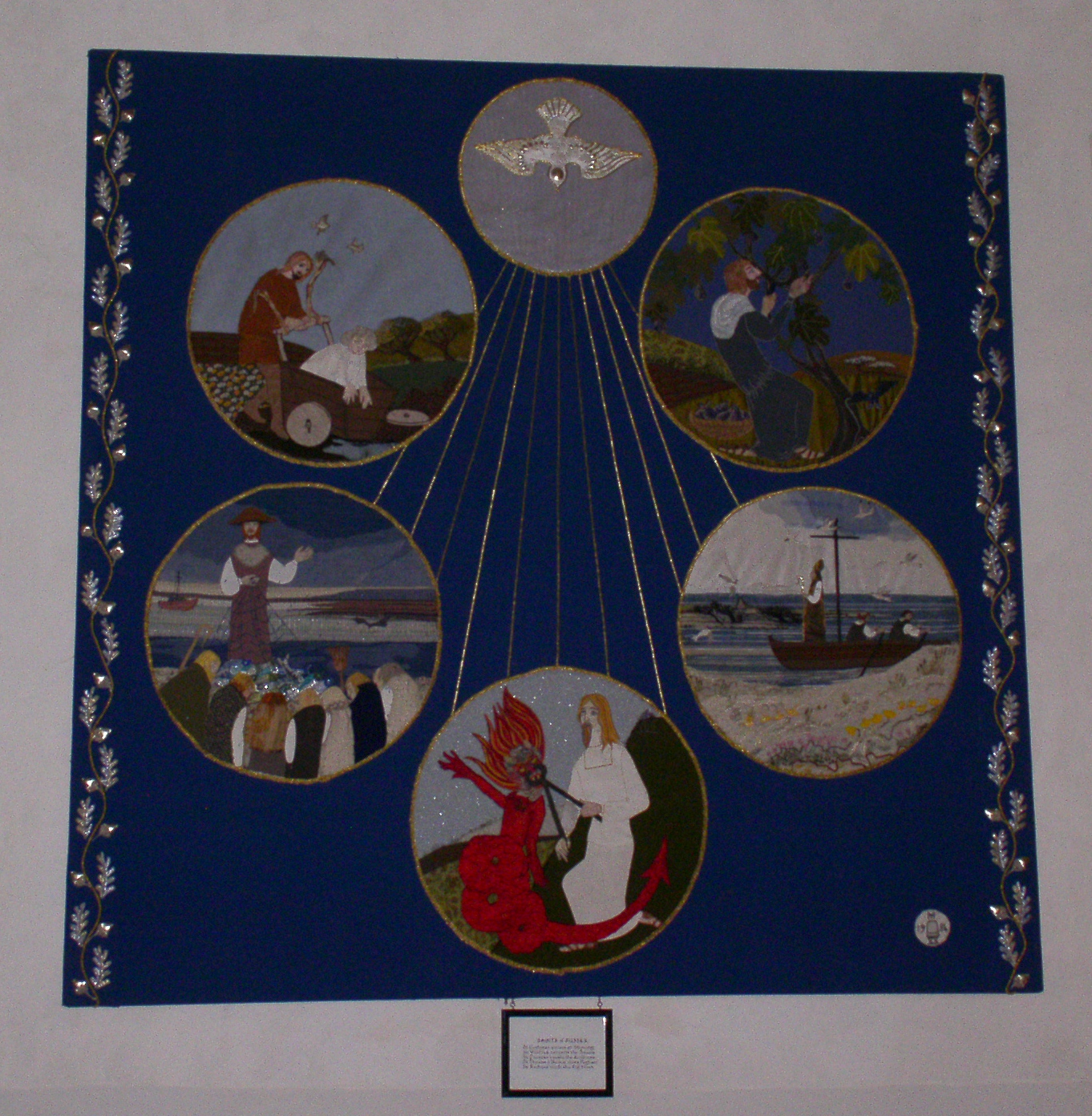 Banner in St James' Church, Birdham, depicting Sussex saints.